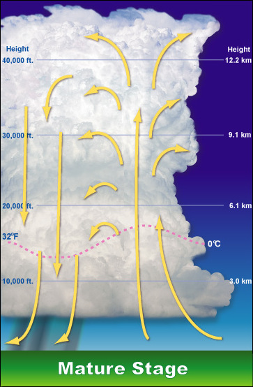 Diagram from NOAA National Weather Service training materials showing the mature stage of a thunderstorm